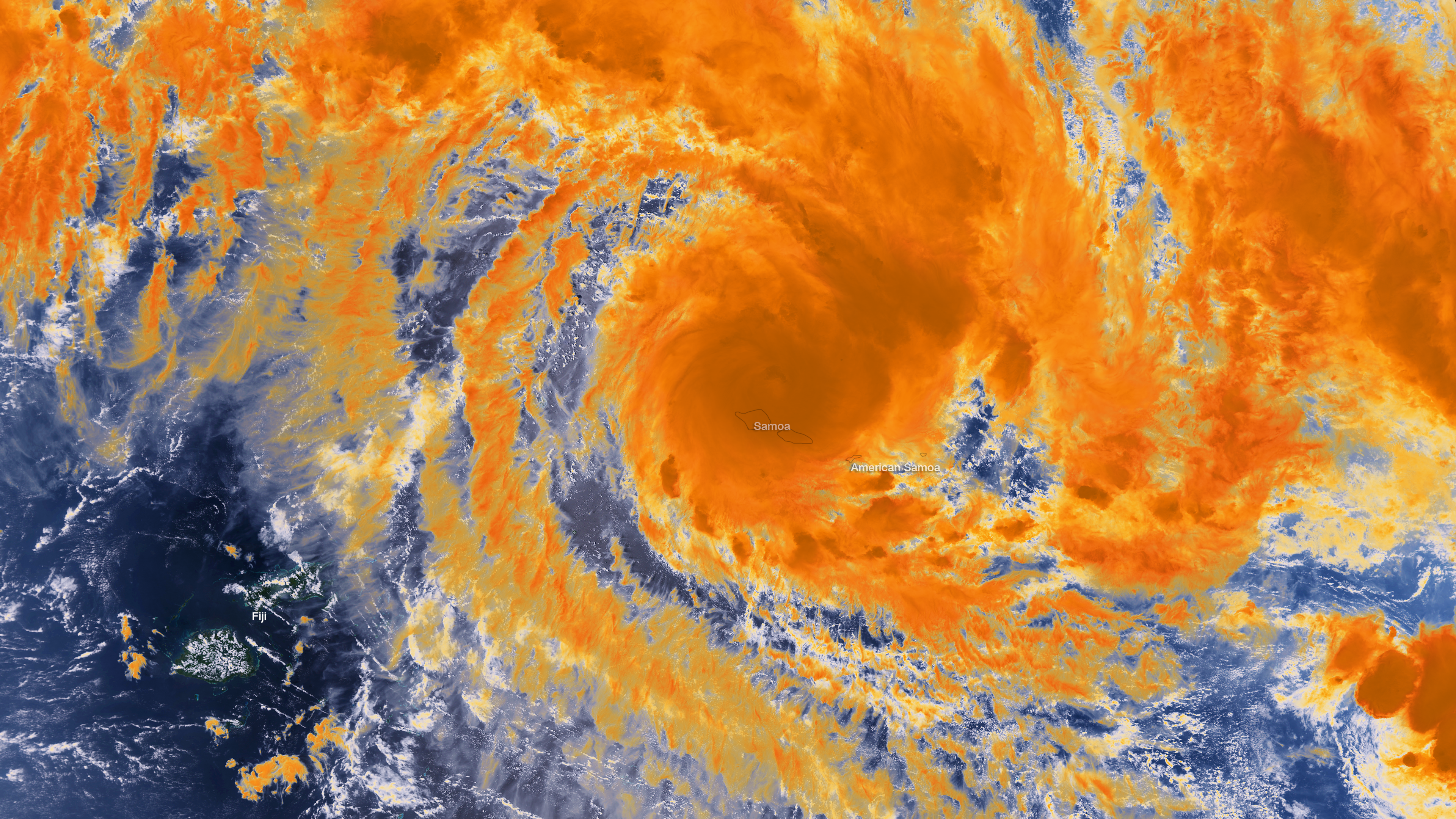 Samoa and American Samoa are still being affected by Cyclone Evan as the storm moves slowly north-northwest. The Joint Typhoon Warning Centerexpects the storm to begin moving west-southwestward over the next couple of days near Fiji. Maximum sustained surface winds were estimated at 100 knots gusting to 125 knots. This image combines the NASA/NOAA Suomi NPP satellite's moderate resolution 5, 4 and 3 channels as a true color image underneath colorized high resolution channel 5 infrared imagery around 0100Z on December 14, 2012.